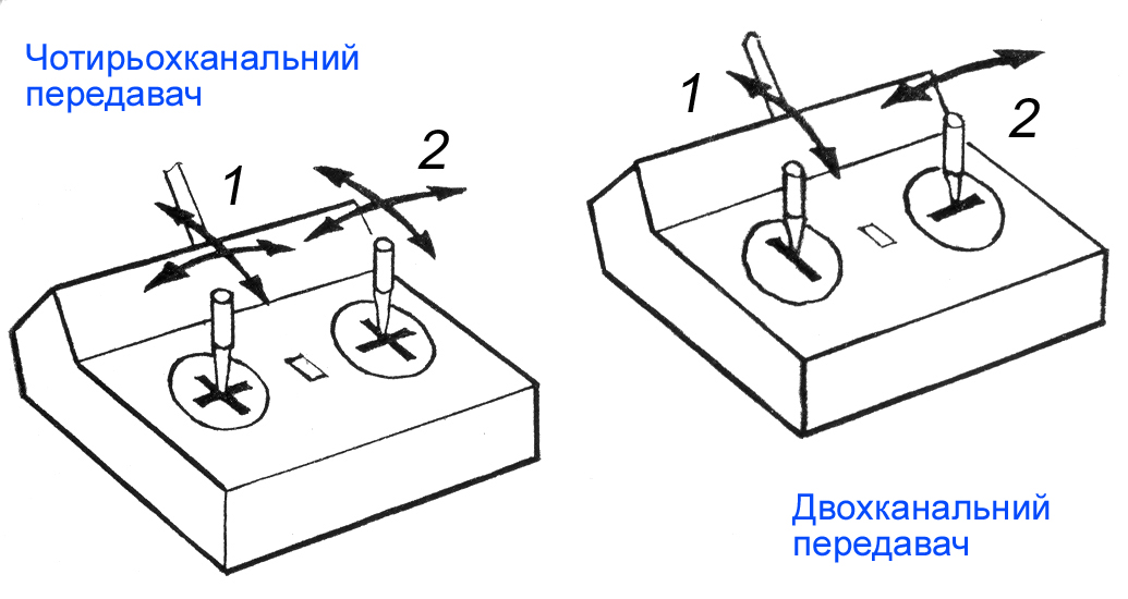 RC transmiter stick